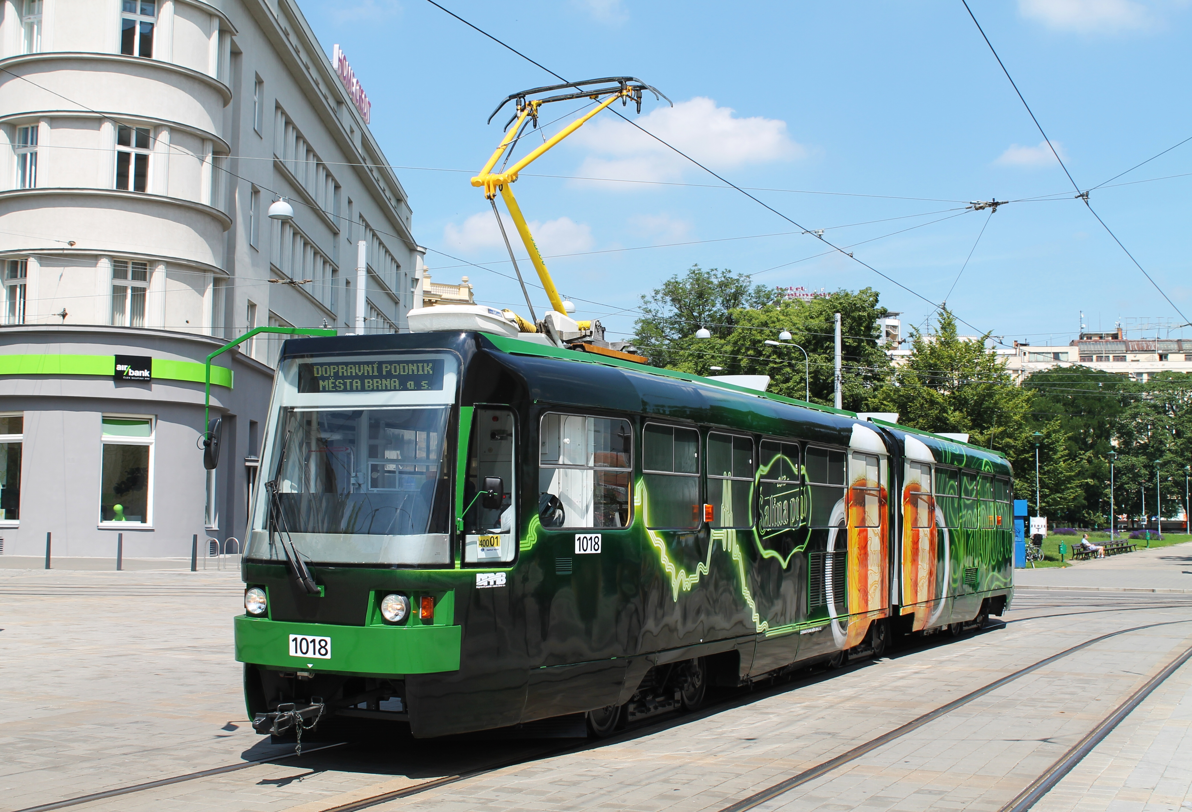 Tatra K2R-RT tram No. 1018, Brno, Czech Republic - OpenStreetMap(Info)